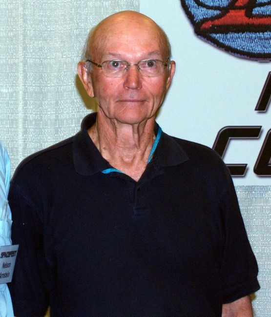 I personally took this photo of NASA astronaut Michael Collins in San Diego.